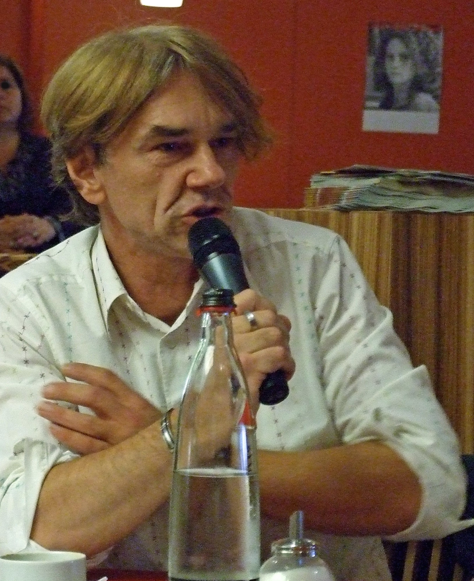 Martin Maria Schwarz (German radio presenter - "hr"), during an interview with Alexa Hennig von Lange in Frankfurt am Main